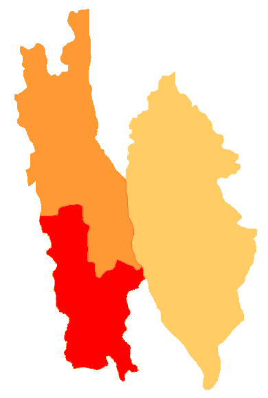 Dêqên Subdivisions map